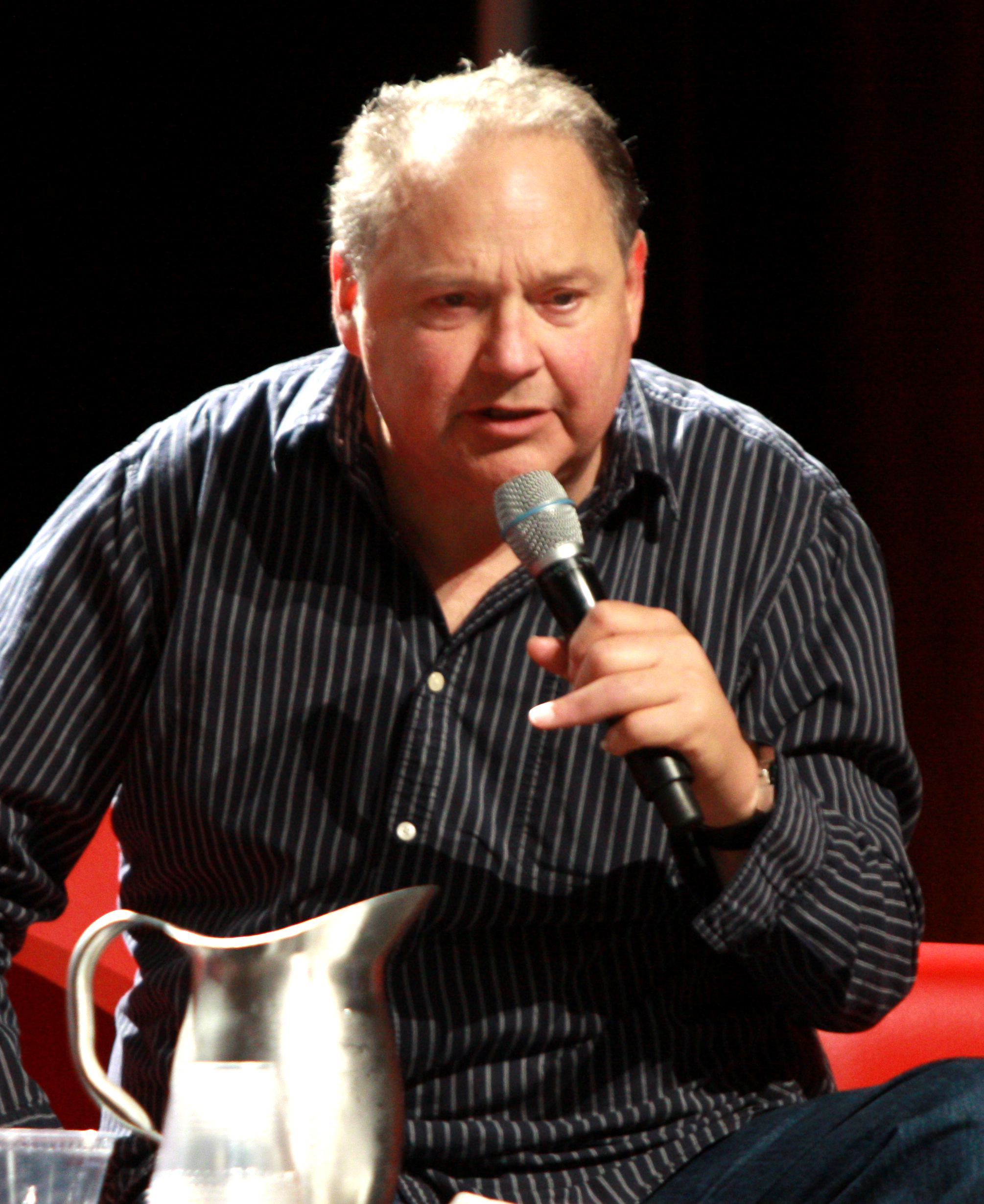 Stephen Furst at the 2013 Phoenix Comicon in Phoenix, Arizona.